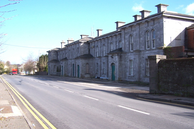 Ex Midland Great Western Railway Station, Athlone, Co. Roscommon, Ireland. This station is a good example of early Irish railway architecture. It was designed by J.S. Mulvany who also designed the Broadstone Station in Dublin. The first public train stopped here on August 1st, 1851, and the last on January 13th 1985 when Athlone Railway Station was transferred to the newly renovated 'Southern Station' on the Leinster side of Athlone.